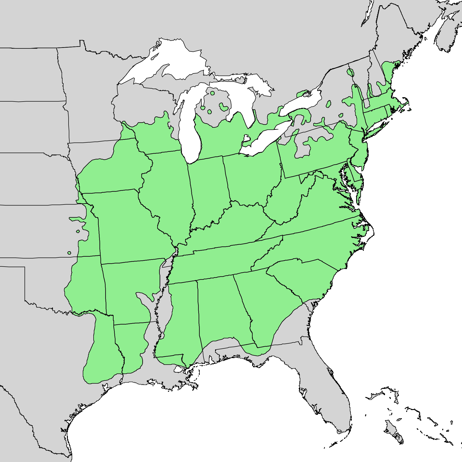 Range map of Quercus velutina